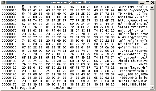 Screenshot of a common hex editor (hexedit by Pascal Rigaux (Pixel))